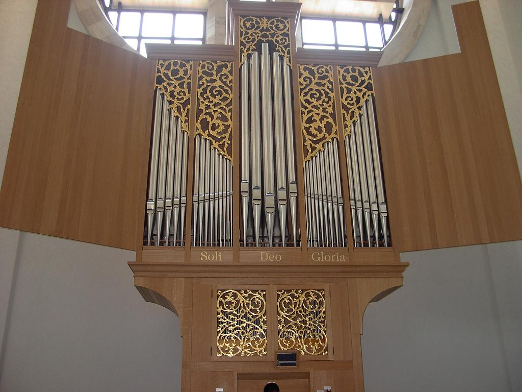 Jens Steinhoff organ in Varna, Bulgaria